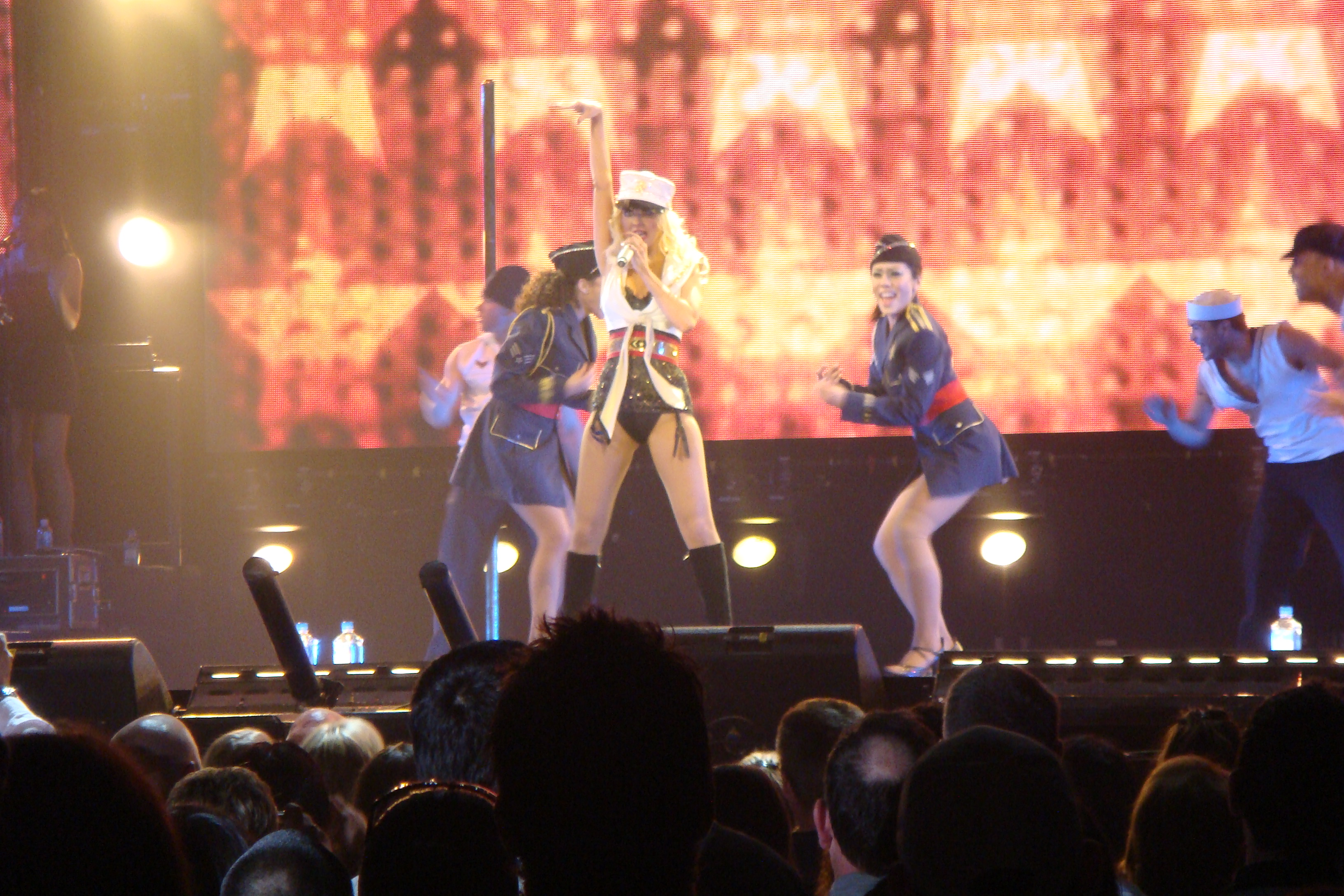 Christina Aguilera sings "Candyman"